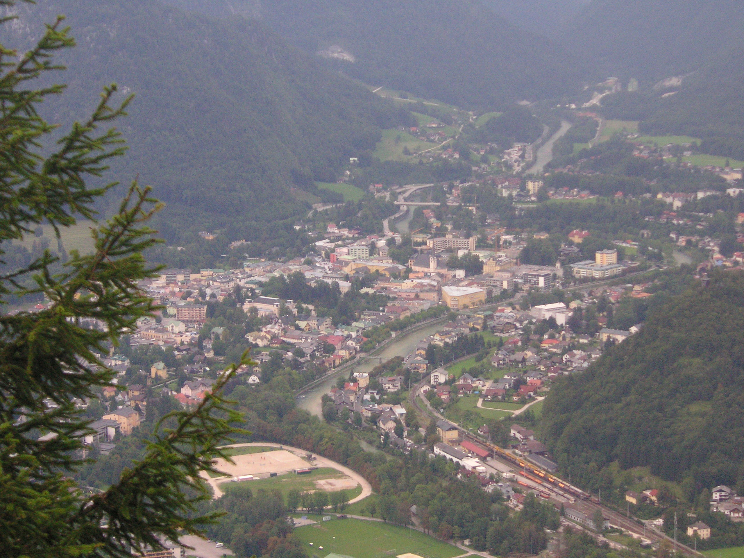 Bad Ischl viewed from the Katrin.